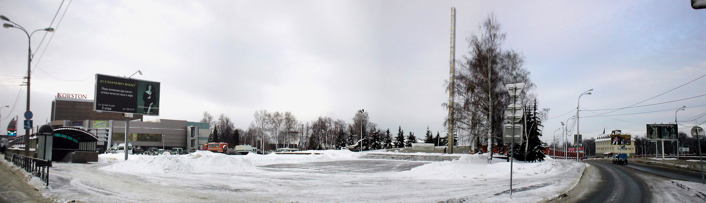 Gorky park square in Kazan